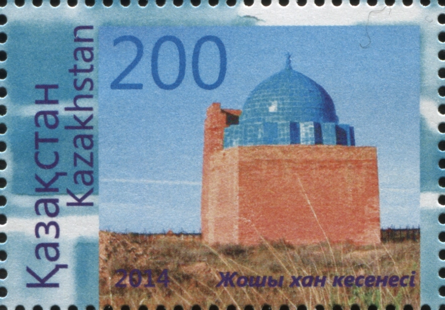 Stamps of Kazakhstan, 2014